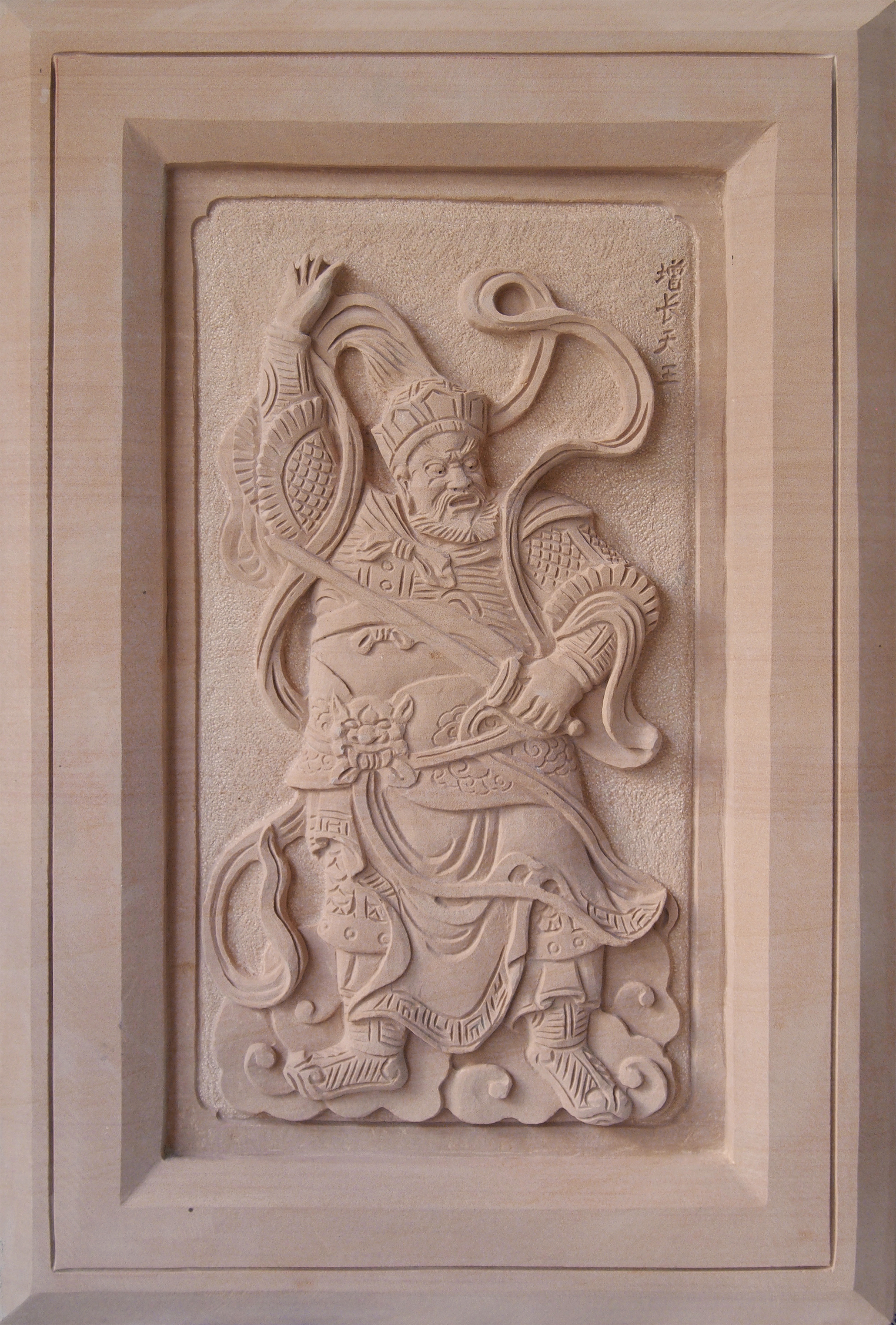 King of the south and one who causes good growth of roots